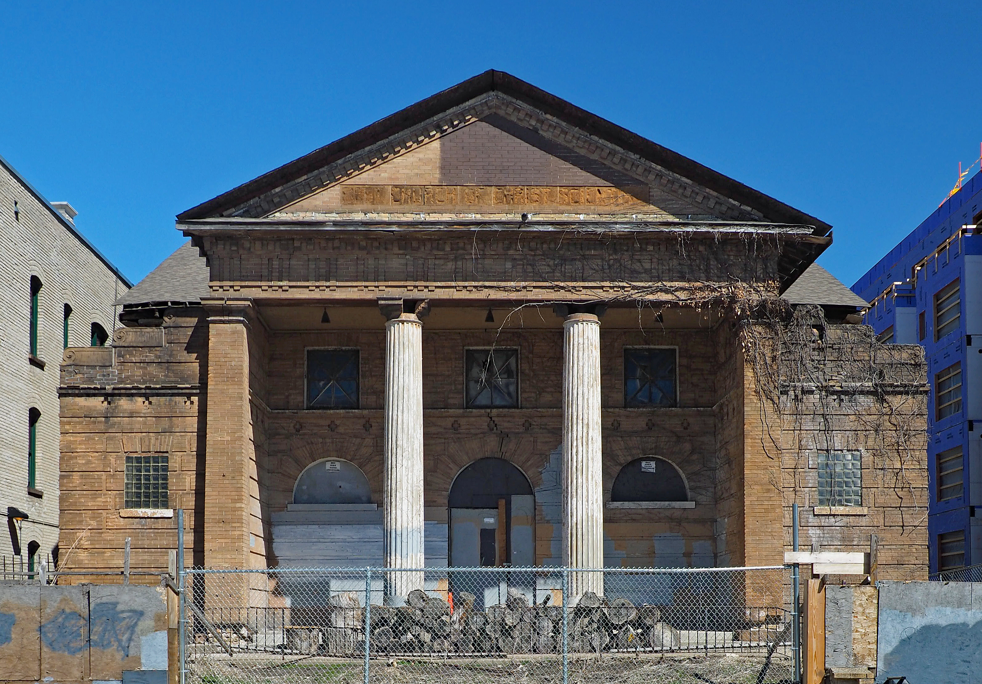 First Church of Christ, Scientist, 614–620 E 15th St, Minneapolis, Minnesota, USA. Viewed from the south.